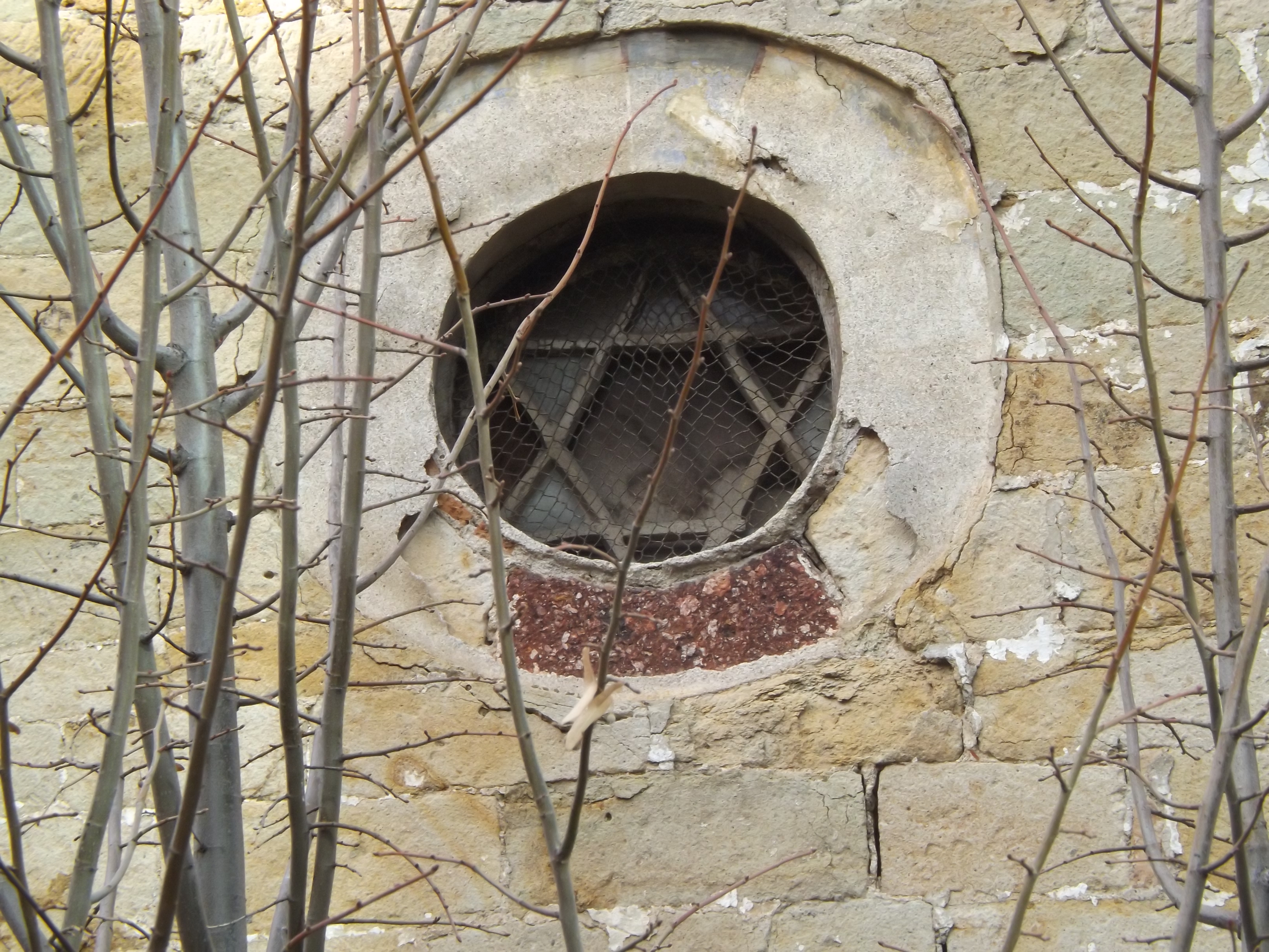 A star of David in the Jashar Pasha Mosque in Prishtine, Kosovo